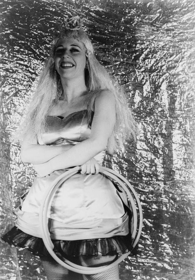 american dancer & choreographer Agnes de Mille (1905-1993) playing 'Venus' in the ballet The Judgment of Paris, music by Kurt Weill, choreography by Antony Tudor, City Center Theatre, New York